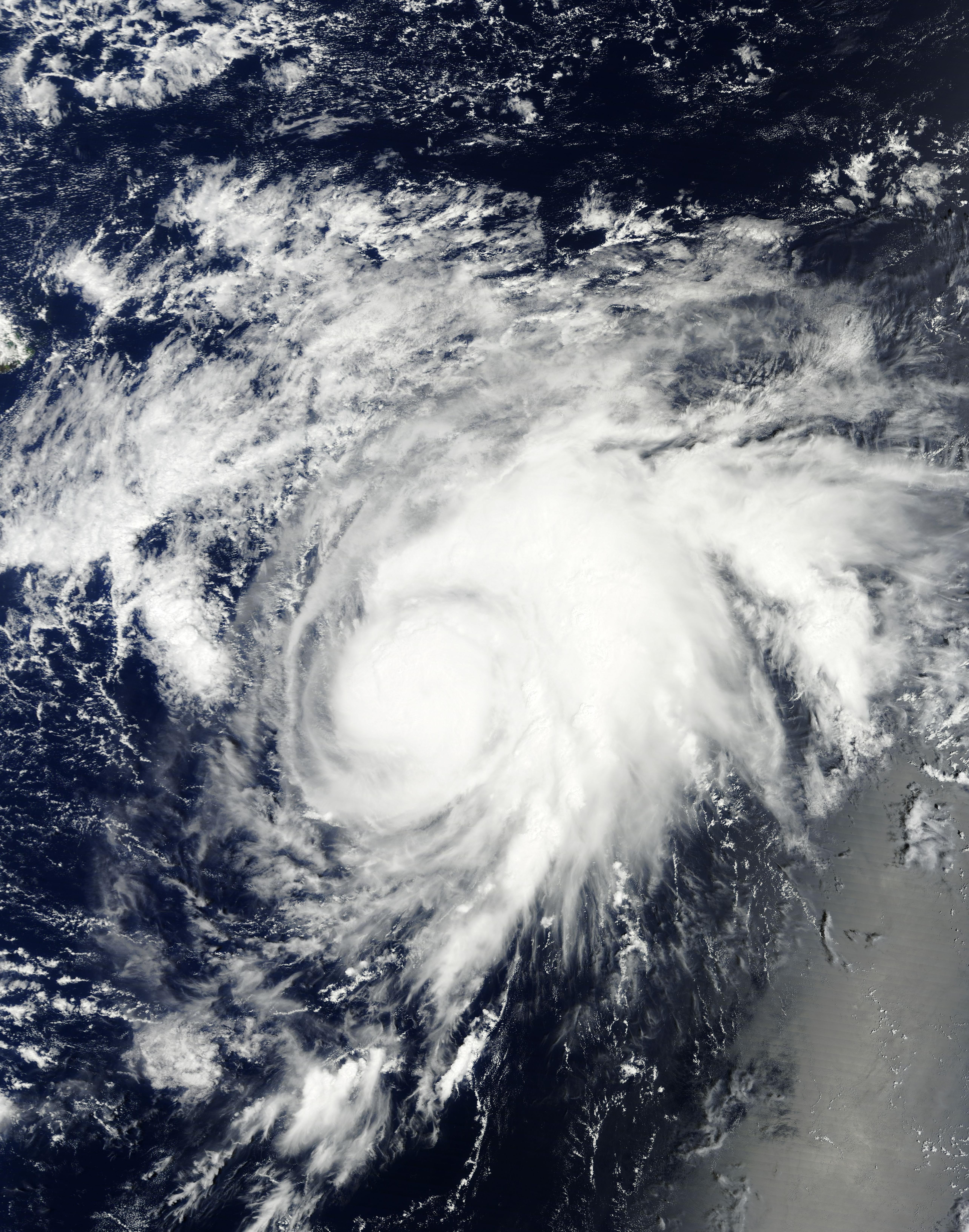 Tropical Storm Niala just at minimum tropical storm strength trying to intensify southeast of Hawaii late on September 25, 2015